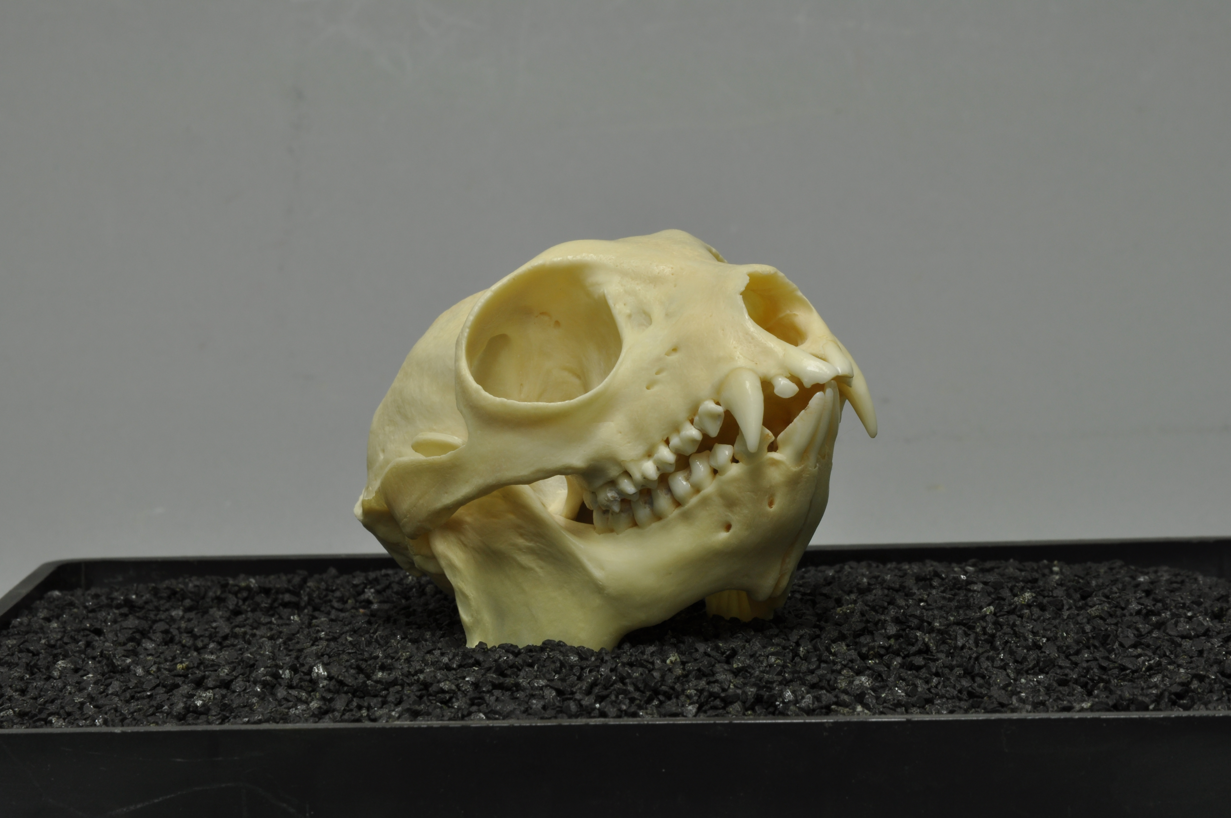 Diademed sifaka Propithecus diadema, skull, Coll. Museum Wiesbaden